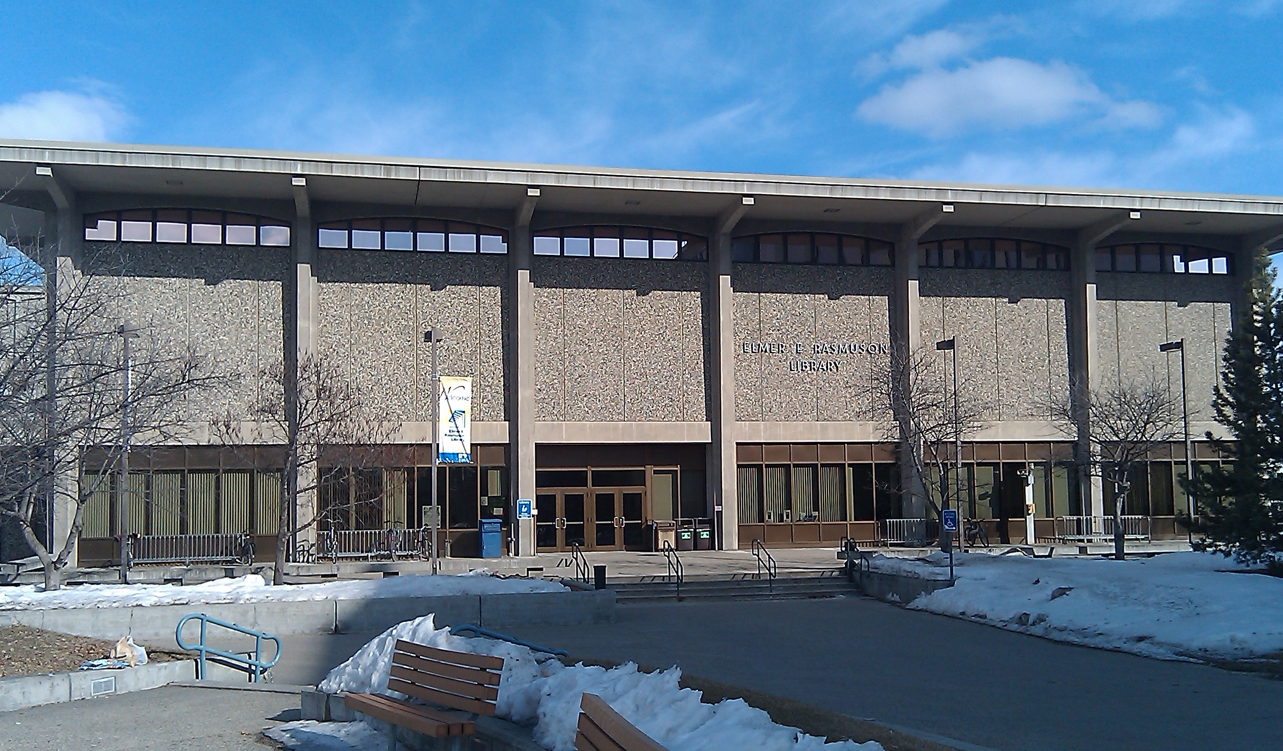 West elevation of the Elmer E. Rasmuson Library at the University of Alaska Fairbanks, showing the original portion of the library structure built in the early 1970s.